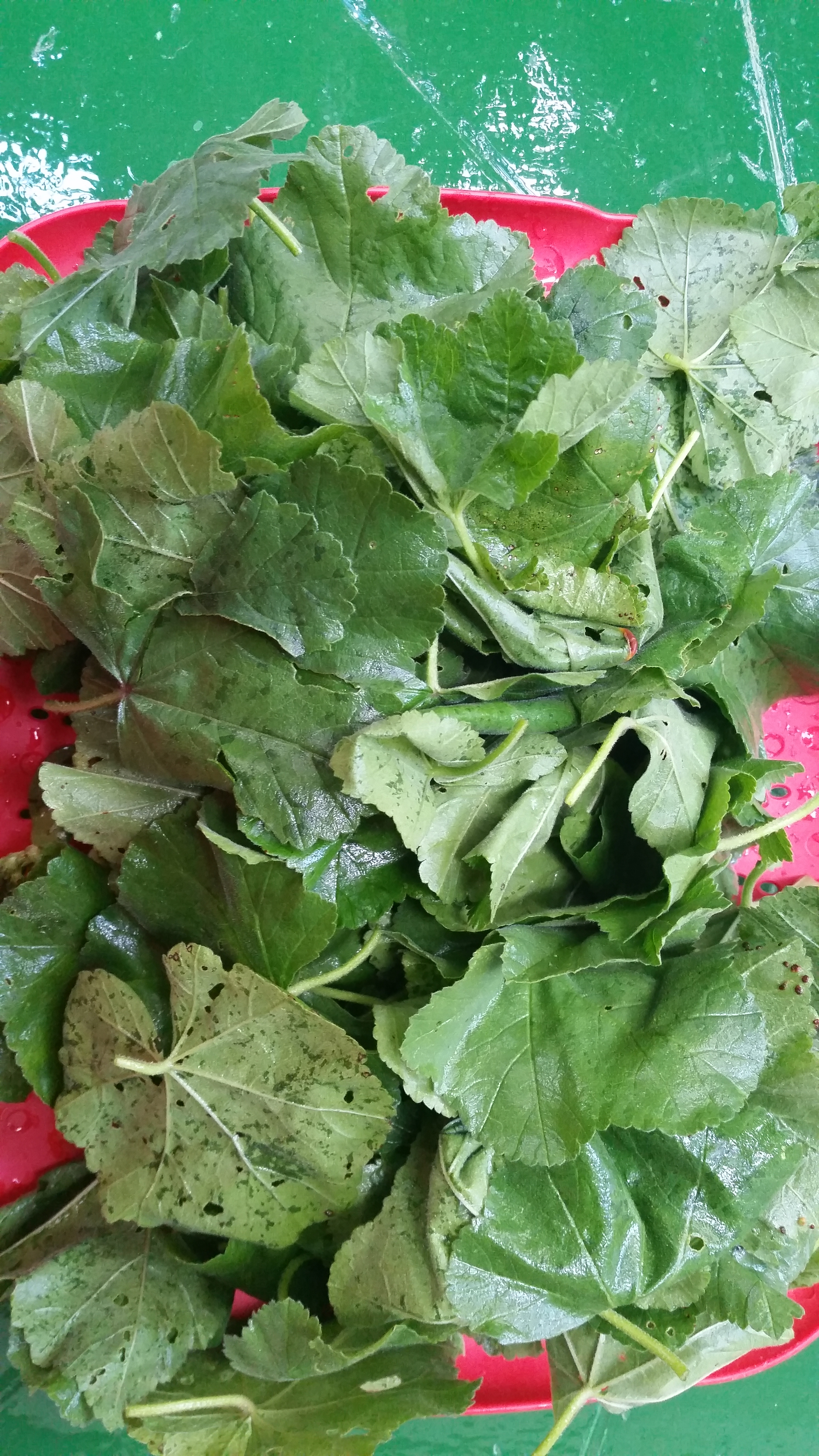 Malva sylvestris (common mallow) leaves, rinsed and ready for cooking.